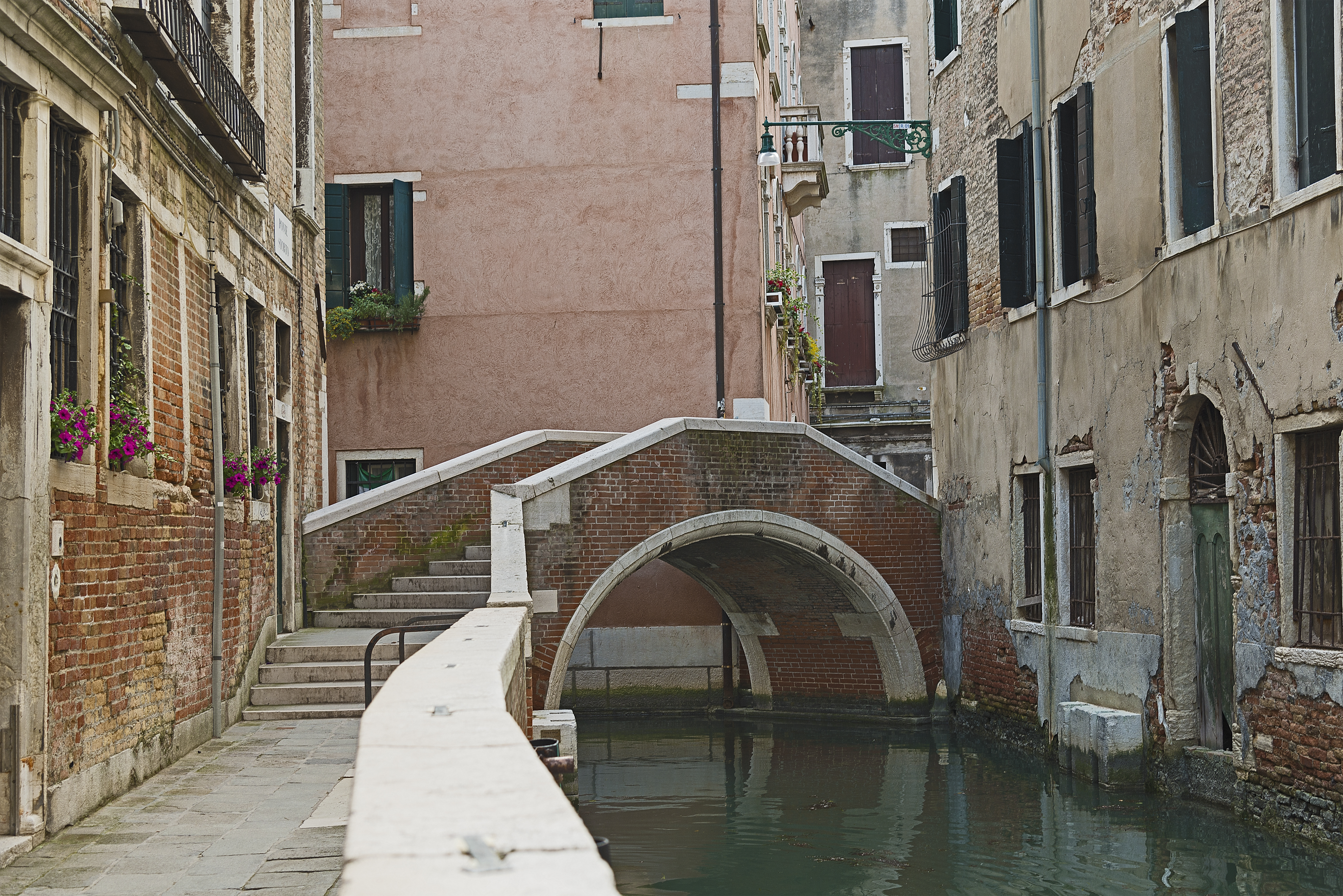 Ponte Storto or dei Callegheri Venice on Rio de Santa Maria Zobenigo.